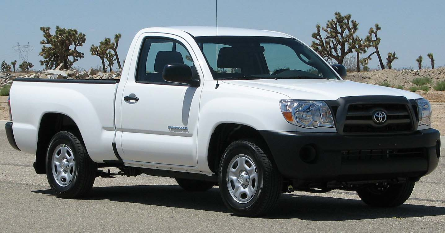 2009 Toyota Tacoma photographed in USA.